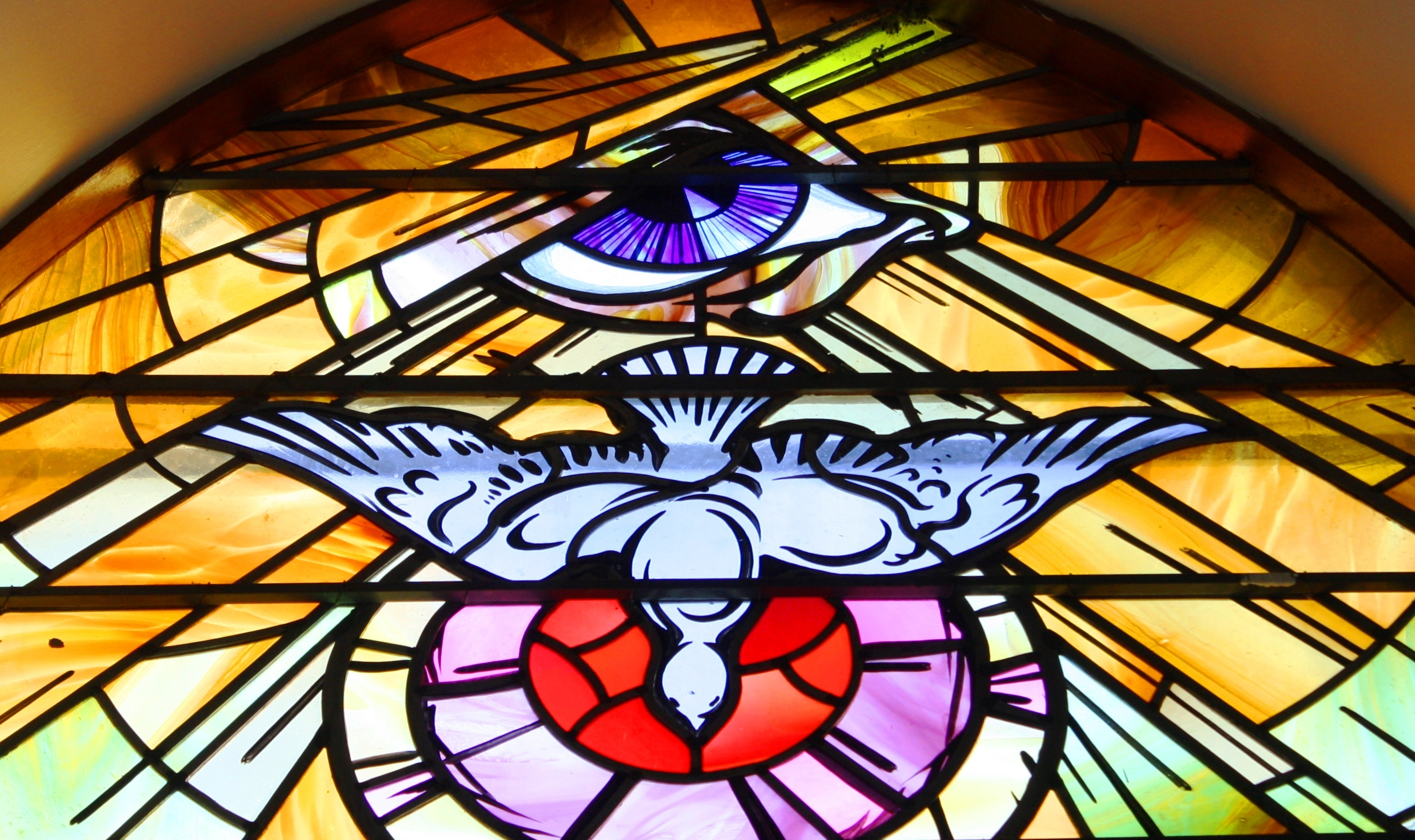 Stained glass window (detail) in Holy Family Roman Catholic Church, Annacloy Road, Teconnaught/Annacloy, County Down, Northern Ireland, September 2010